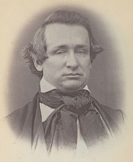 John B. Thompson, Senator from Kentucky, Thirty-fifth Congress, half-length portrait